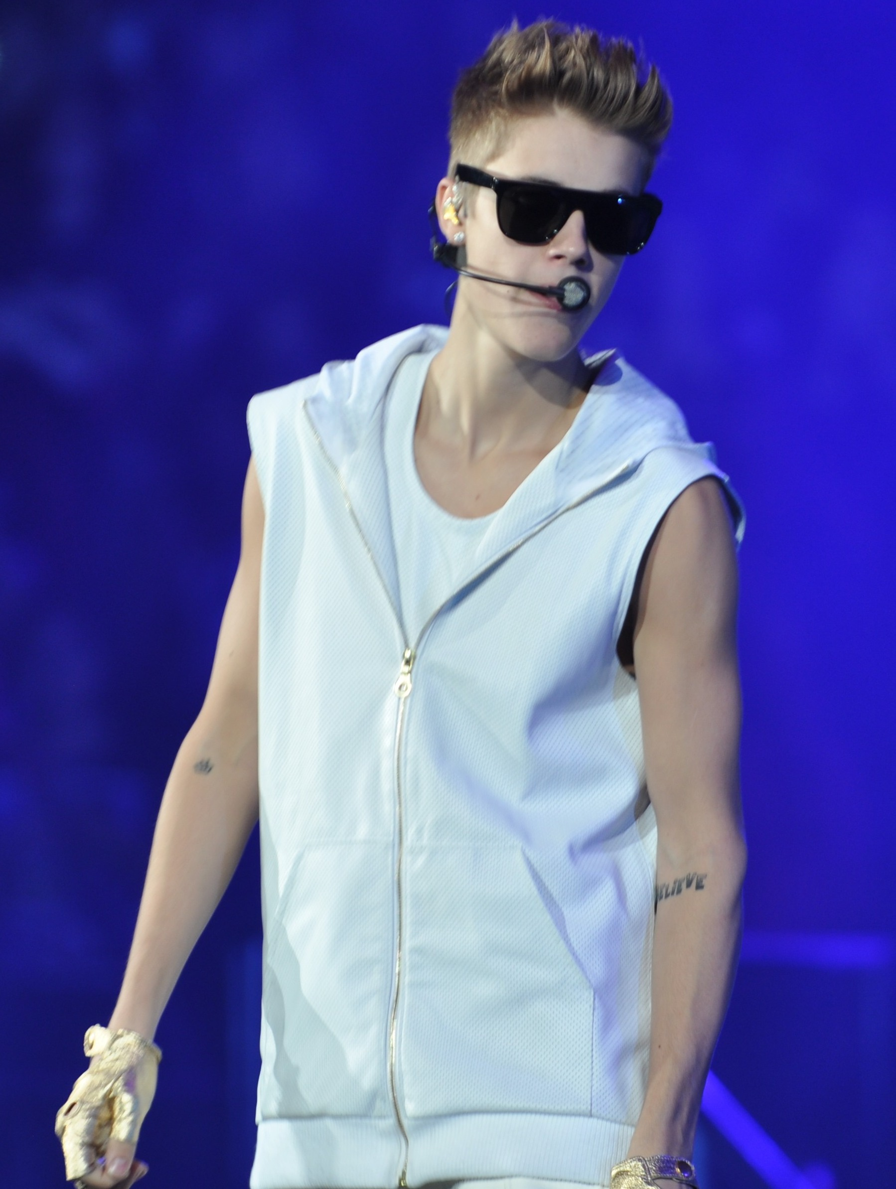 Justin Bieber performing Believe Tour in October 20, 2012.